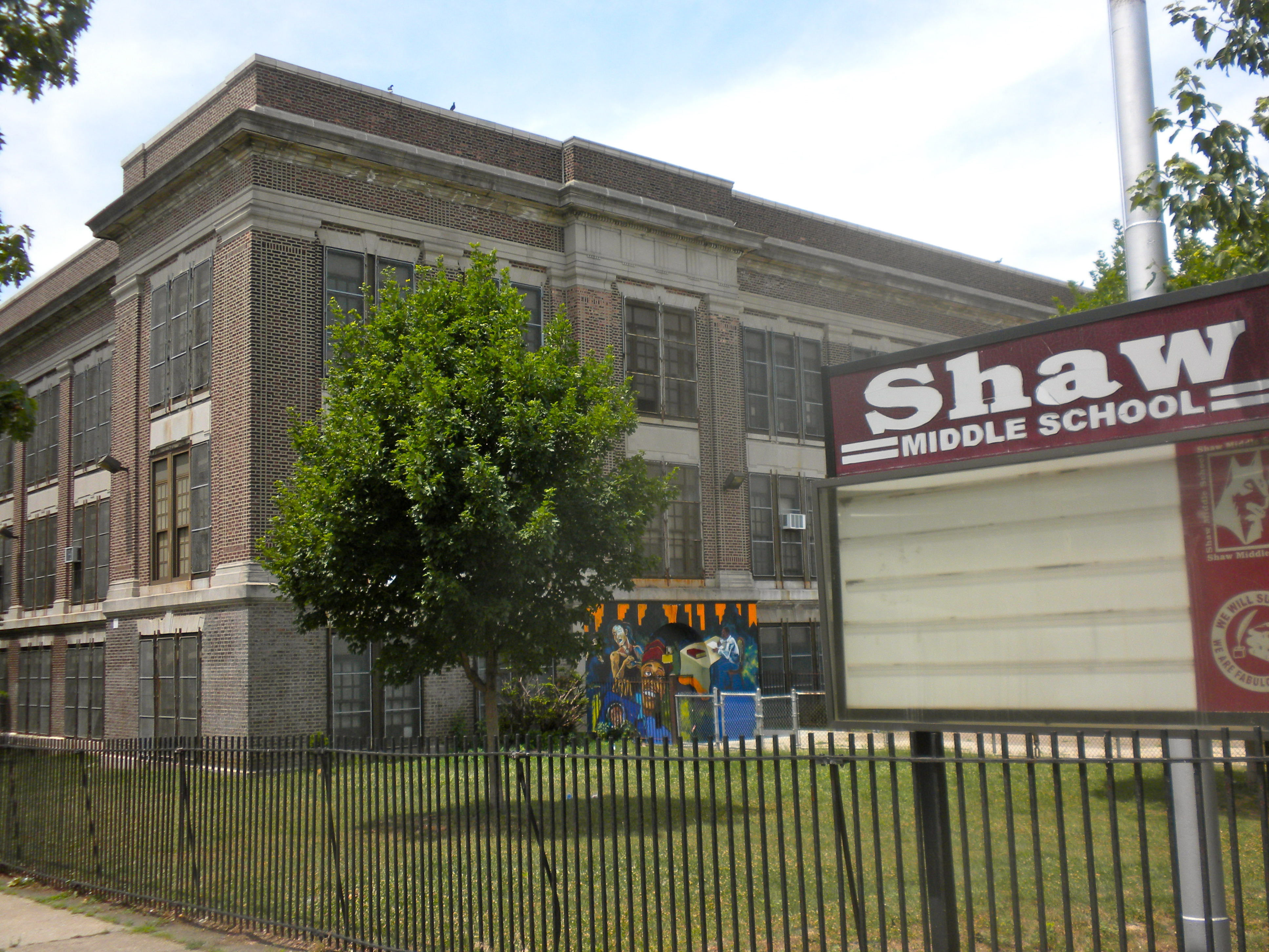 Hardy Williams Academy, formerly the Anna Howard Shaw Junior High School, in SW Philadelphia, on NRHP since November 18, 1988. At 5400 Warrington Avenue in Southwest Schuylkill neighborhood